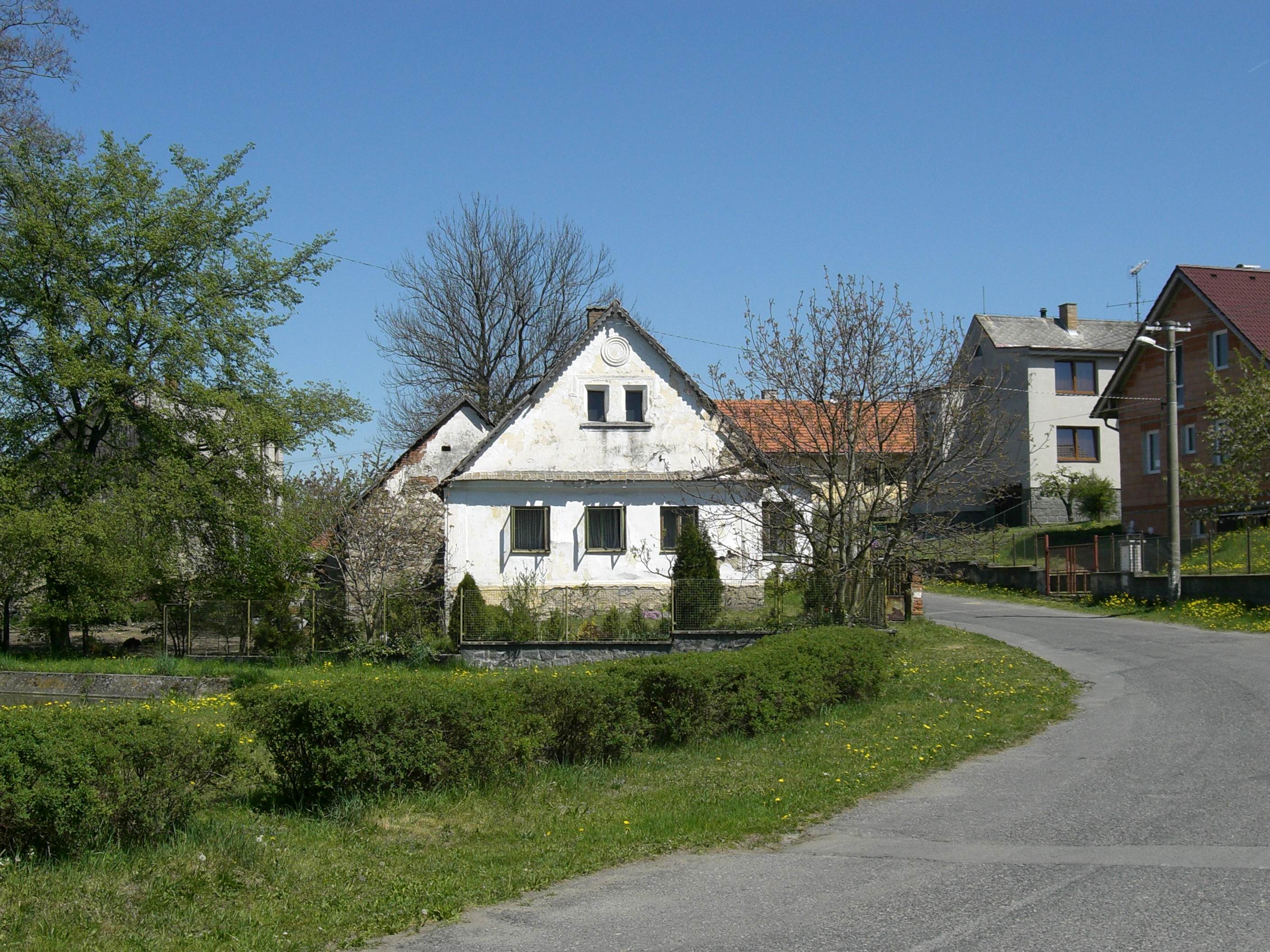 Zbelítov village in Písek district, Czech Republic.